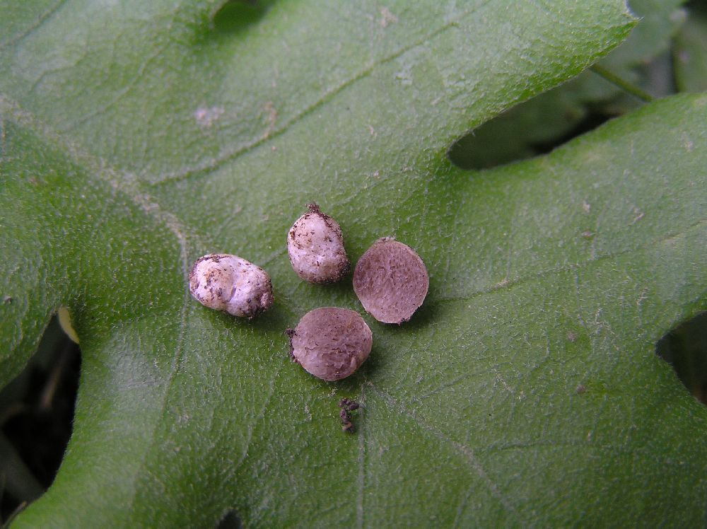 The fungal species Wakefieldia macrospora. Specimen photographed in Portaria, Magnesia, Greece.